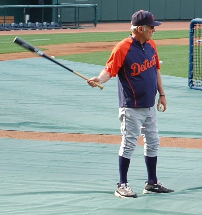 Jim Leyland hitting balls to Miguel Cabrera before the Detroit Tigers played the Kansas City Royals on June 4, 2010.